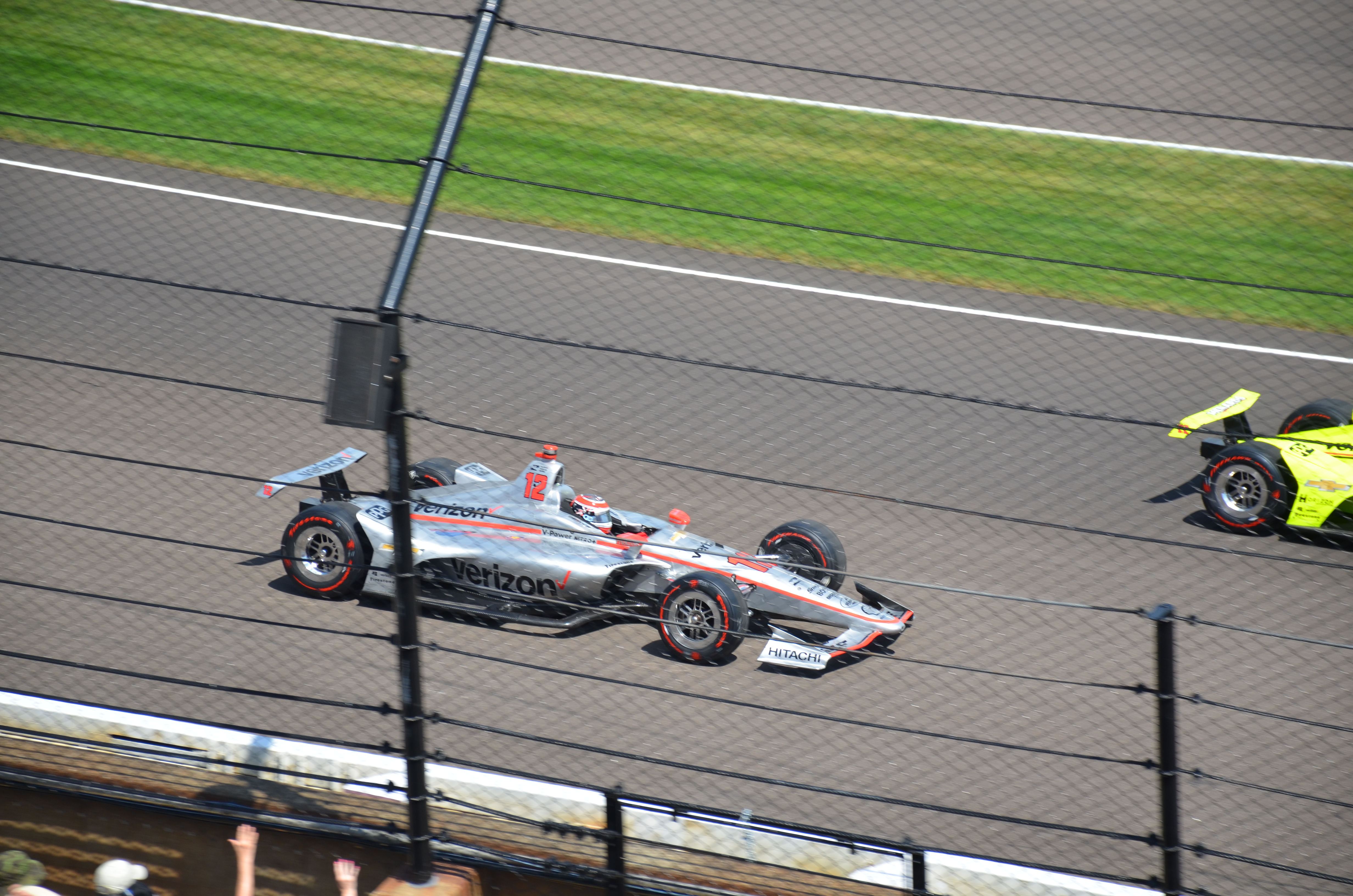 Will Power at the 2018 Indianapolis 500